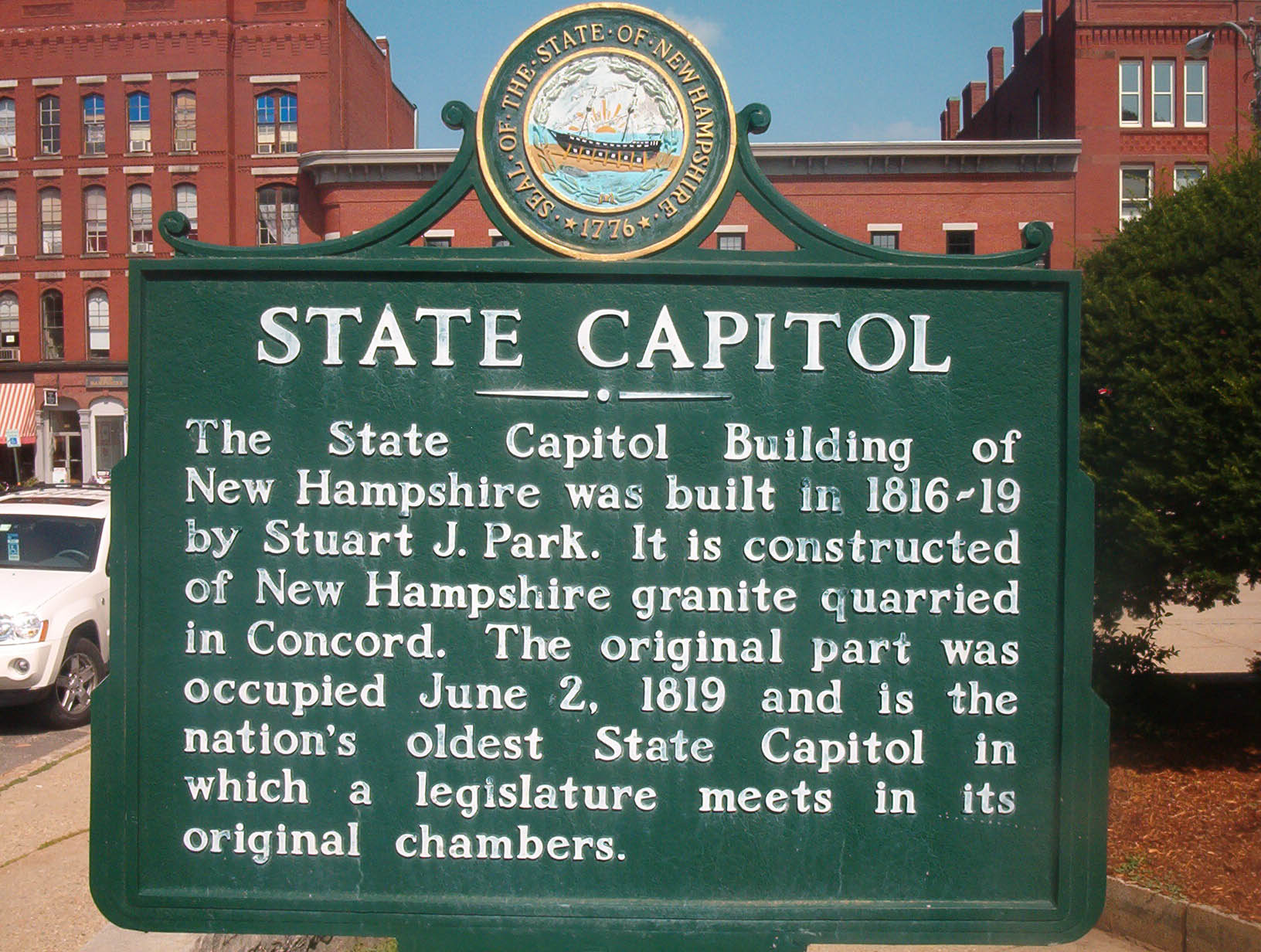 Concord capitol sign